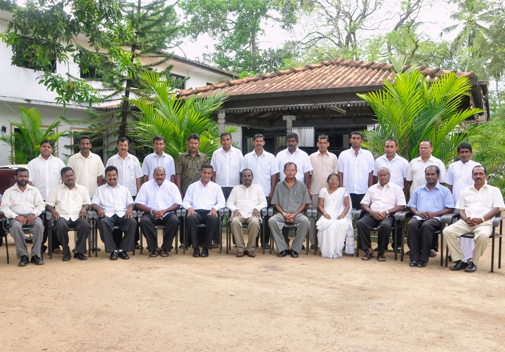 Ingiriya Administration01